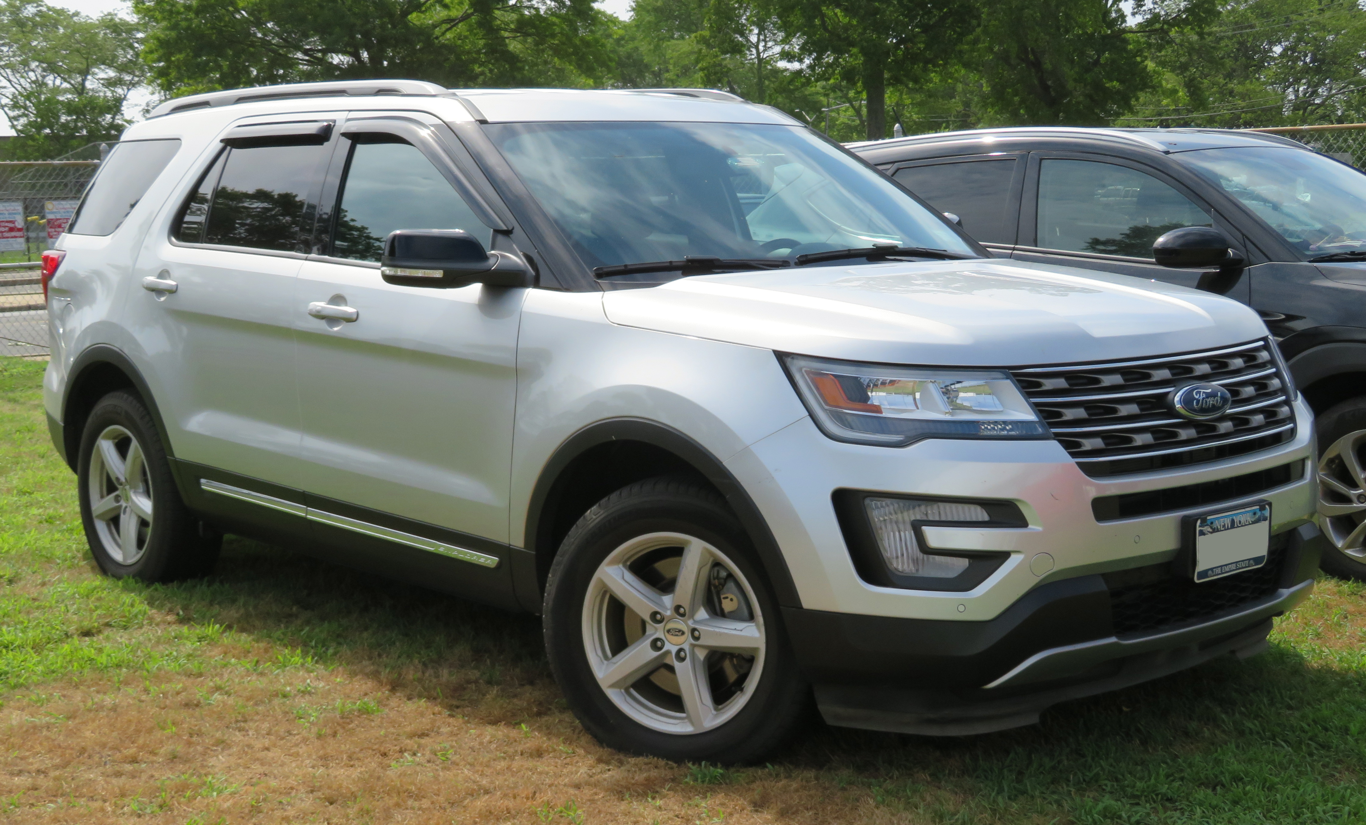 A 2017 Ford Explorer XLT photographed at Merrick, New York, USA